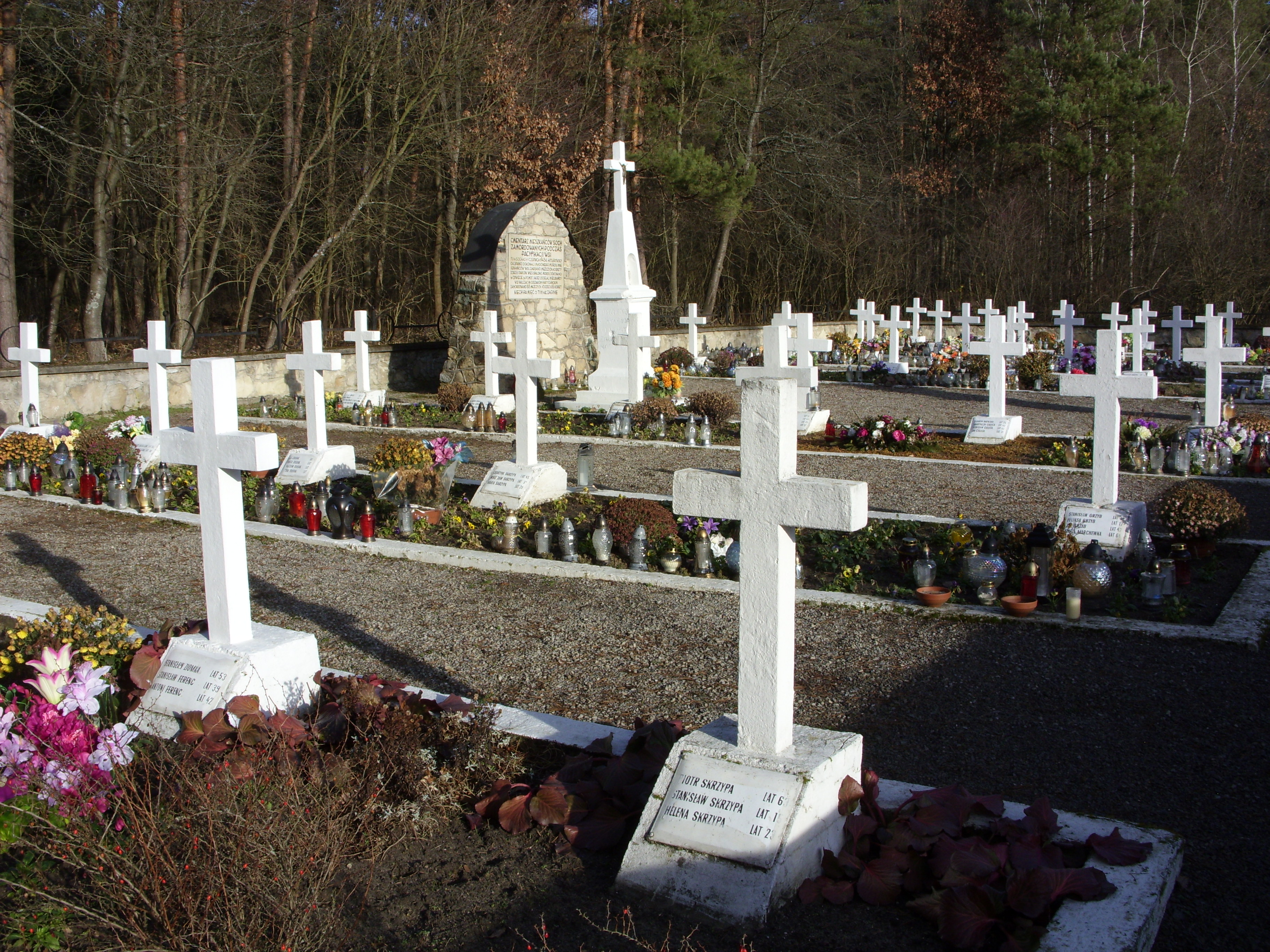 Cemetery of Polish victims of the German Nazi massacre in Sochy from June 1, 1943. At that time, Germans murdered about 181-200 people, including many women and children. The village burned down. The Germans also used about 7-10 Luftwaffe aircraft and bombed the village of Sochy. Only a few people survived.